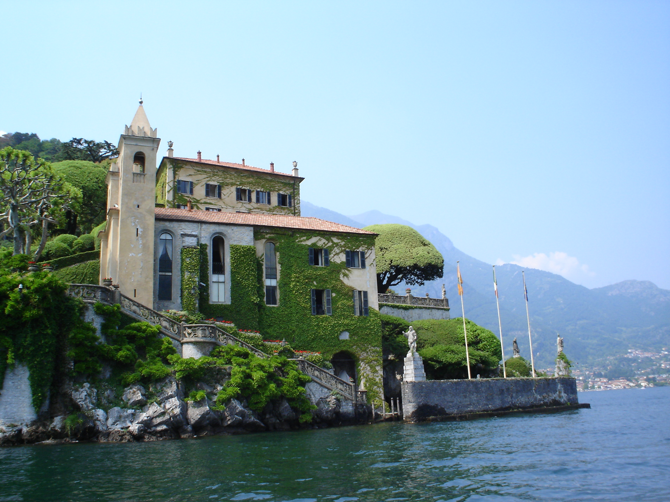 This was taken in Villa Balbianello on Lake Como in north Italy- the location used for Anakin and Padmé's wedding in Star Wars Episode 2.